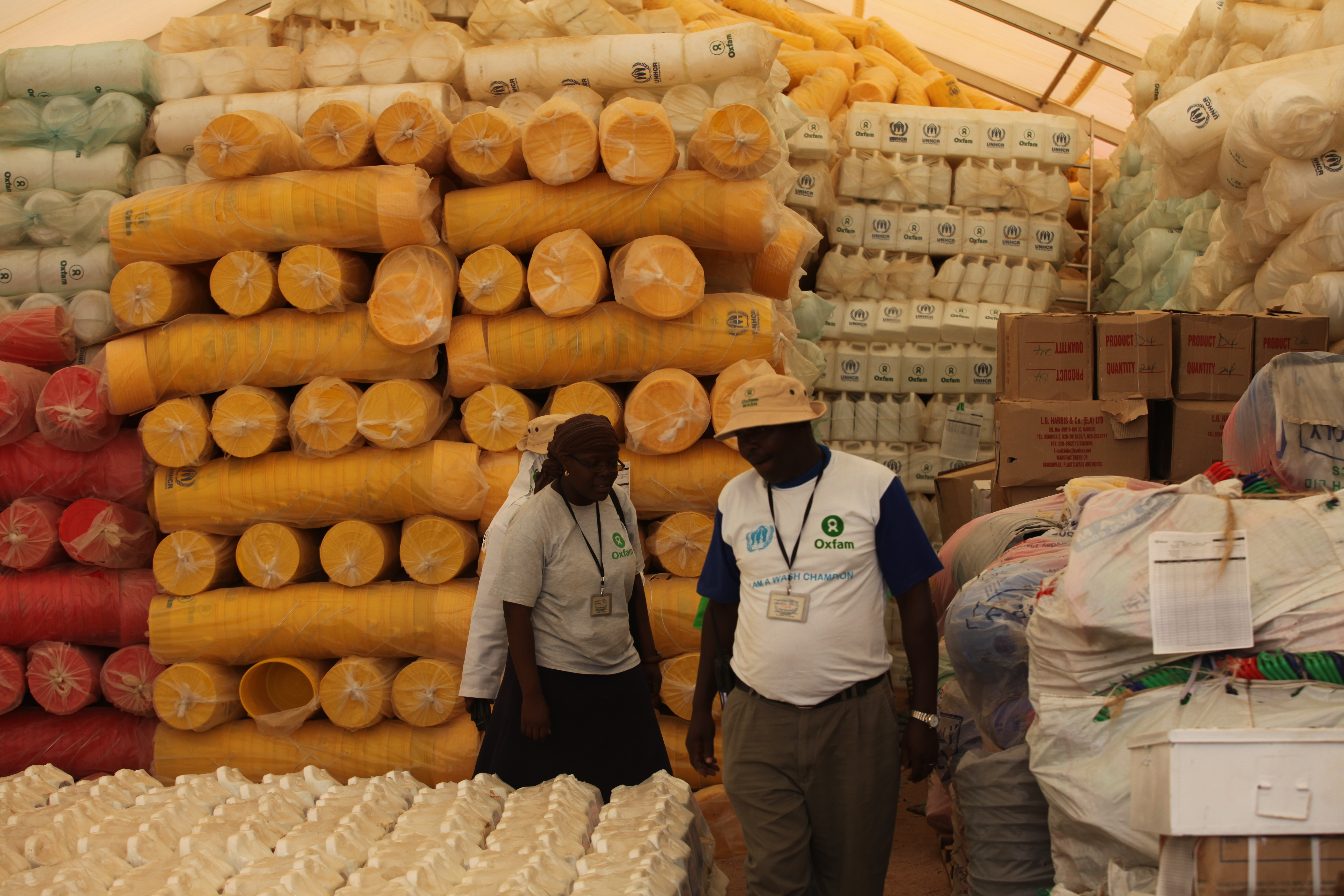 Oxfam health workers in Dadaab prepare to distribute 7,000 jerry cans and bars of soap to newly arrived refugees who have walked for many days across the desert from Somalia. The Dadaab camps are severely overcrowded and clean water is scarce. Without sanitised jerry cans to store the water, it can quickly become contaminated and risk spreading disease. The soap also helps to improve sanitation in the camp and reduces the risk of potentially fatal illnesses such as diarrhoea, especially among children